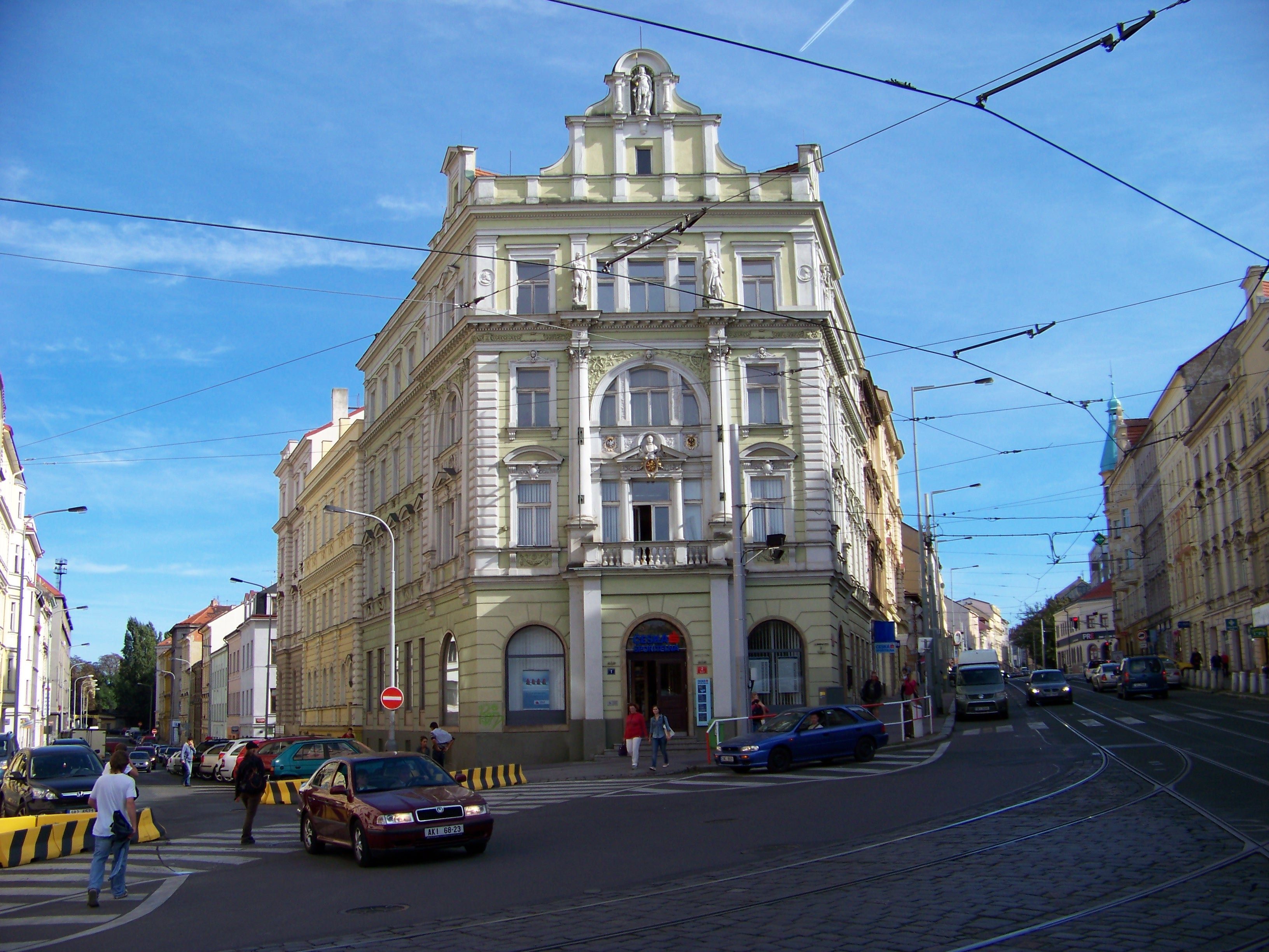 Prague-Nusle, the Czech Republic. Náměstí Bratří Synků, Na Zámecké street.